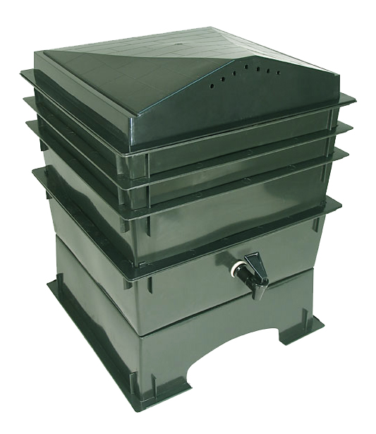 Vermicomposting box or Verricomposting bin